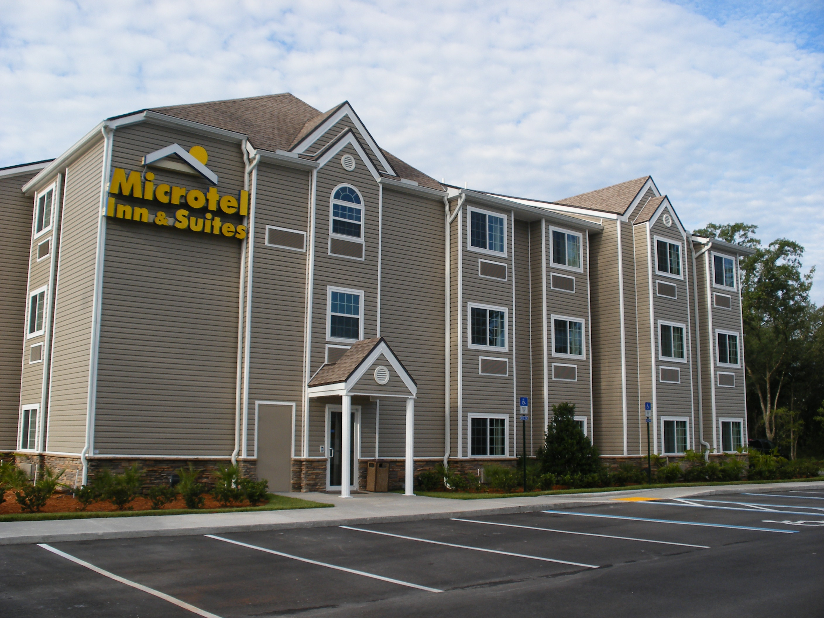 A brand new Microtel Inns and Suites hotel located at the Jacksonville Airport in Florida. This hotel is a new prototype design by Microtel featuring a new room design.